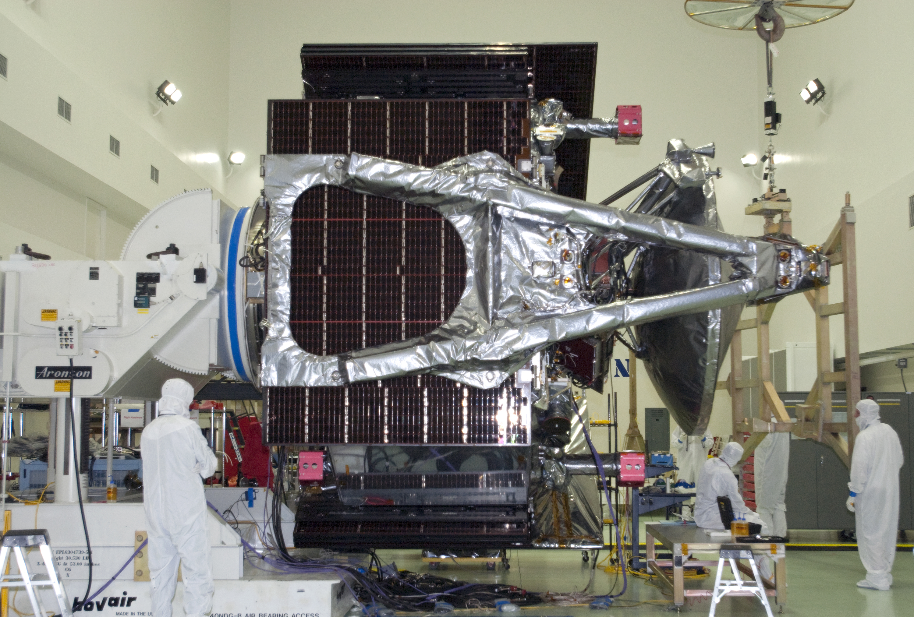 CAPE CANAVERAL, Fla. -- At Astrotech Space Operations in Titusville, Fla., technicians have installed solar array #1 with its magnetometer boom to NASA's Juno spacecraft. Juno is scheduled to launch aboard a United Launch Alliance Atlas V rocket from Cape Canaveral, Fla. Aug. 5.The solar-powered spacecraft will orbit Jupiter's poles 33 times to find out more about the gas giant's origins, structure, atmosphere and magnetosphere and investigate the existence of a solid planetary core. For more information visit